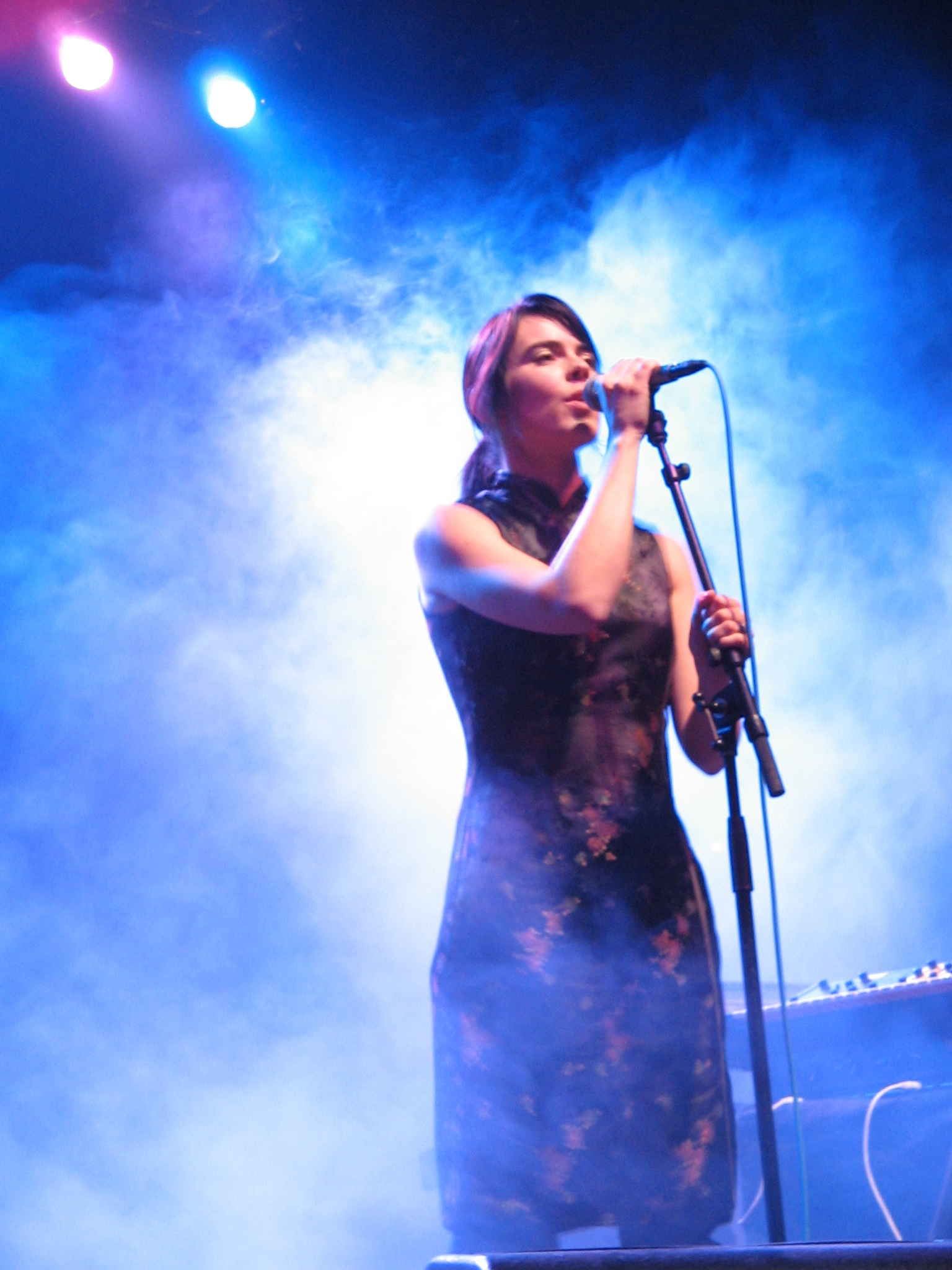 Petronella Nettermalm, from the Swedish rock band Paatos. The Gathering concert in Pratteln, Switzerland.